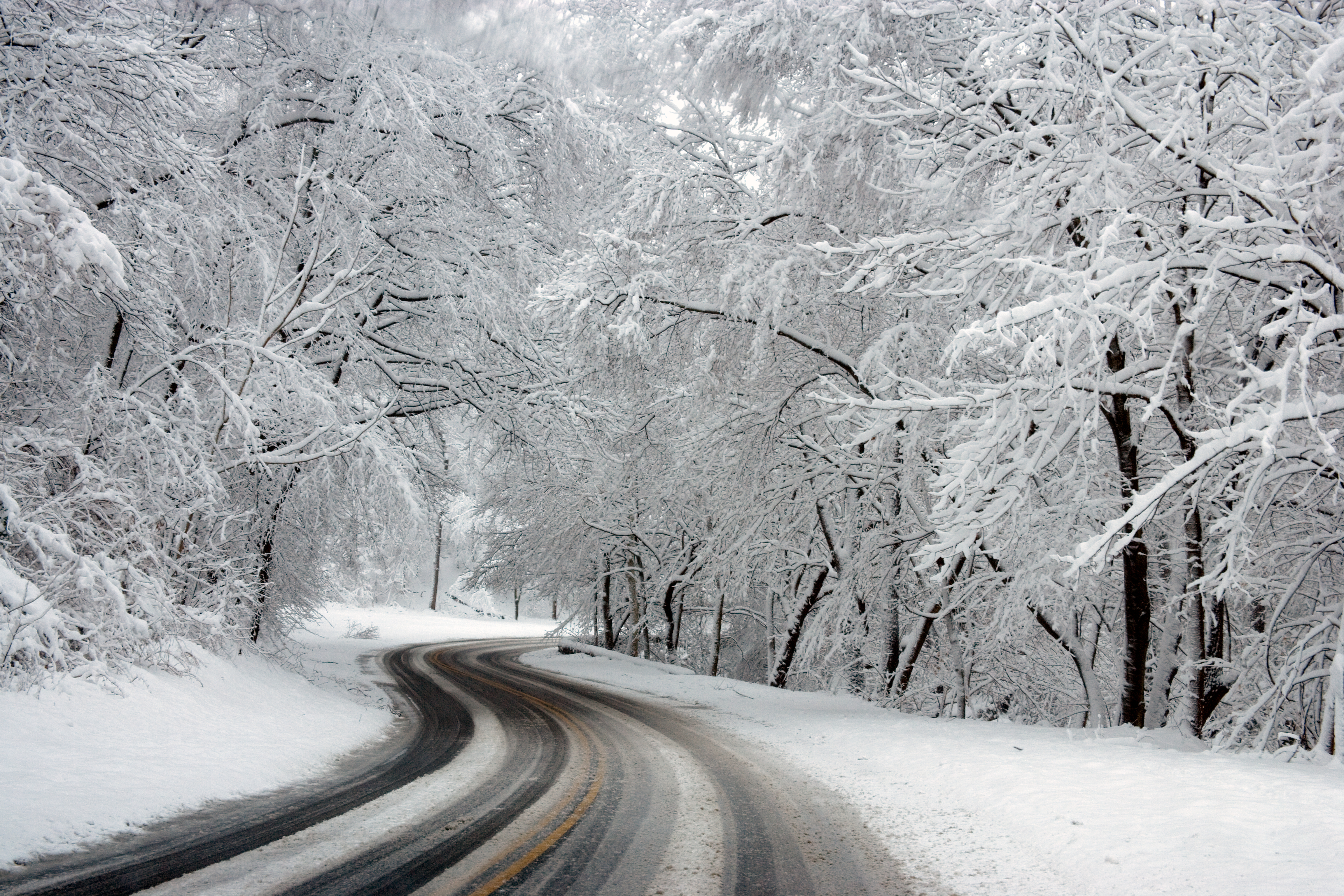 Rock Creek Park, Washington, D.C.